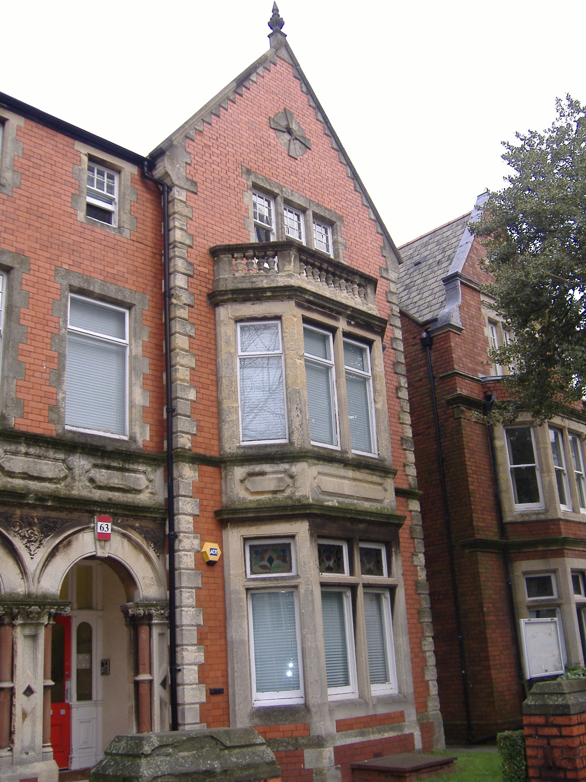 COHP 63 Park Place, Cardiff